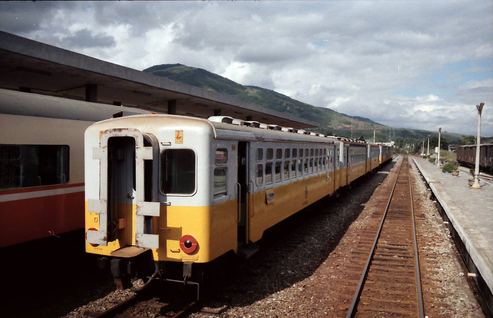 Former livery of type DR2050 trailer of DMU, Taiwan Railway Administration. for Taitung Line.